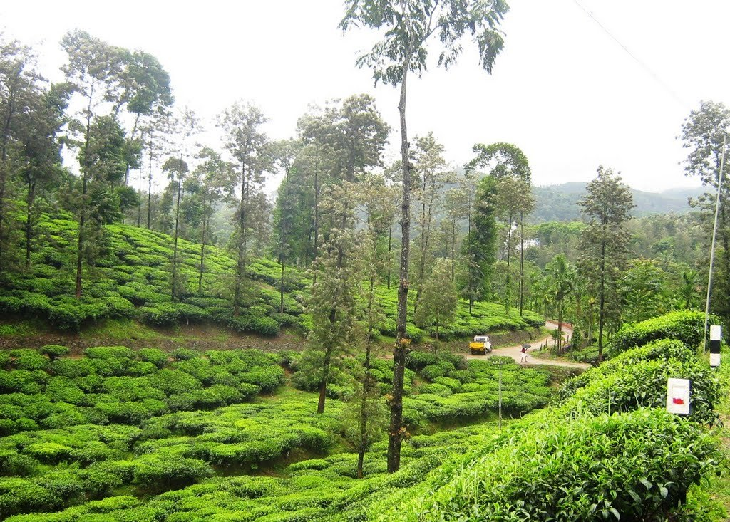 Lush green tea estates, Peermade, Idukki